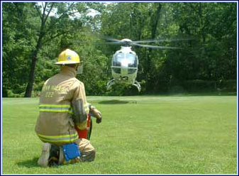 Landing Emergency Medical Helicopter